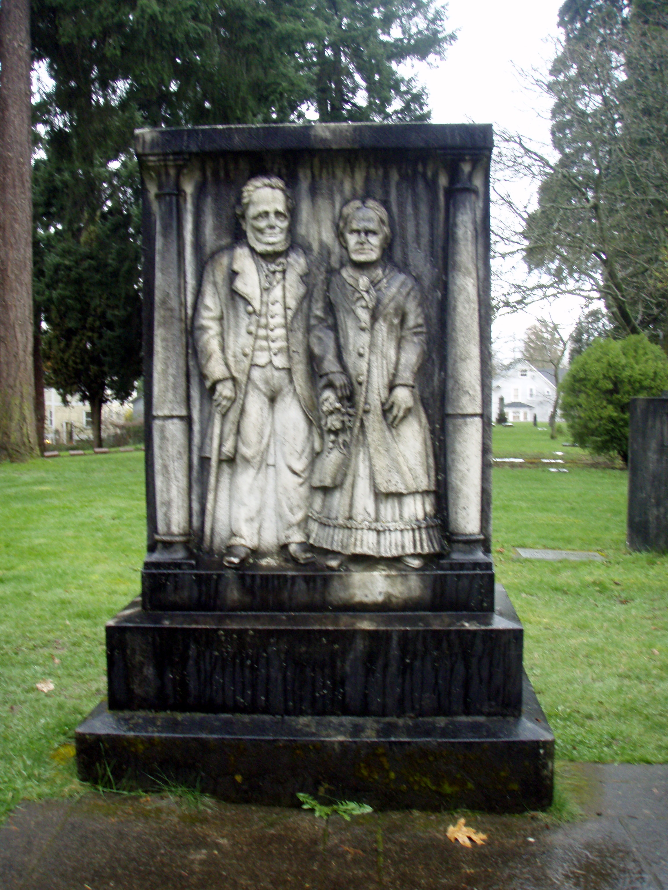 grave stone of James B. Stephens and wife Elizabeth